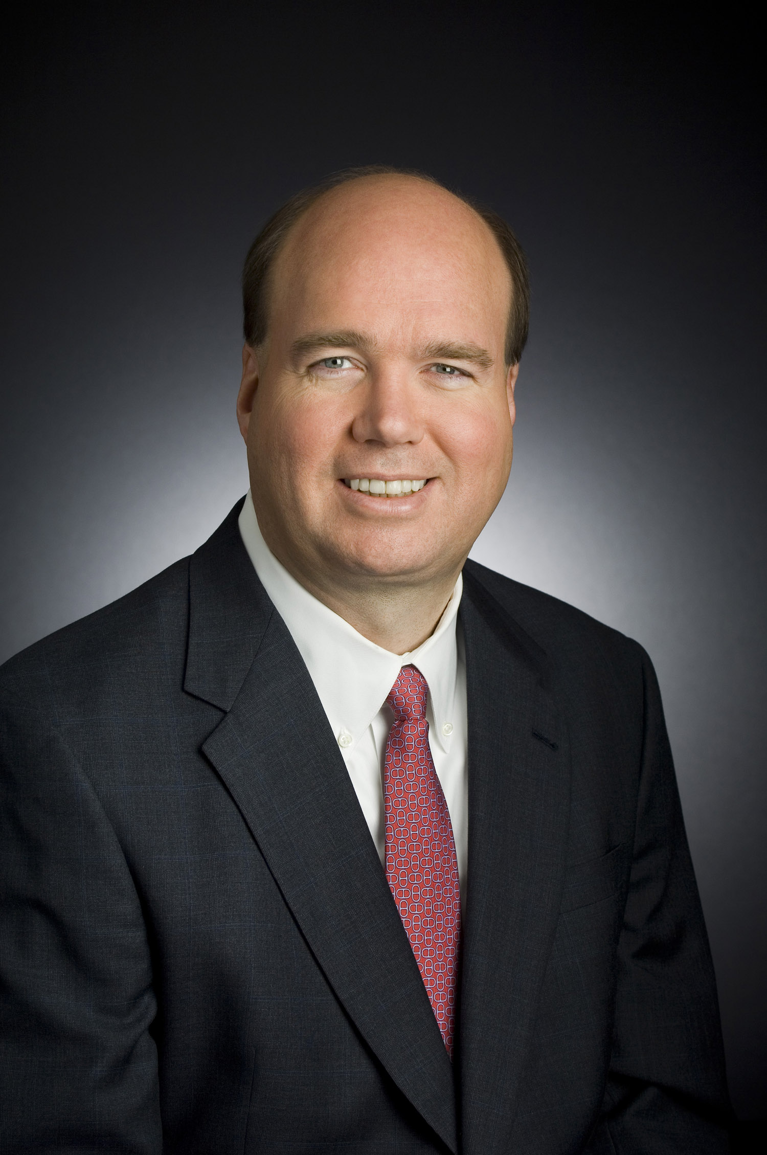 Continental Subject: Larry Kellner March 2007 - Houston, Texas Photo: Mark Green/MGP2